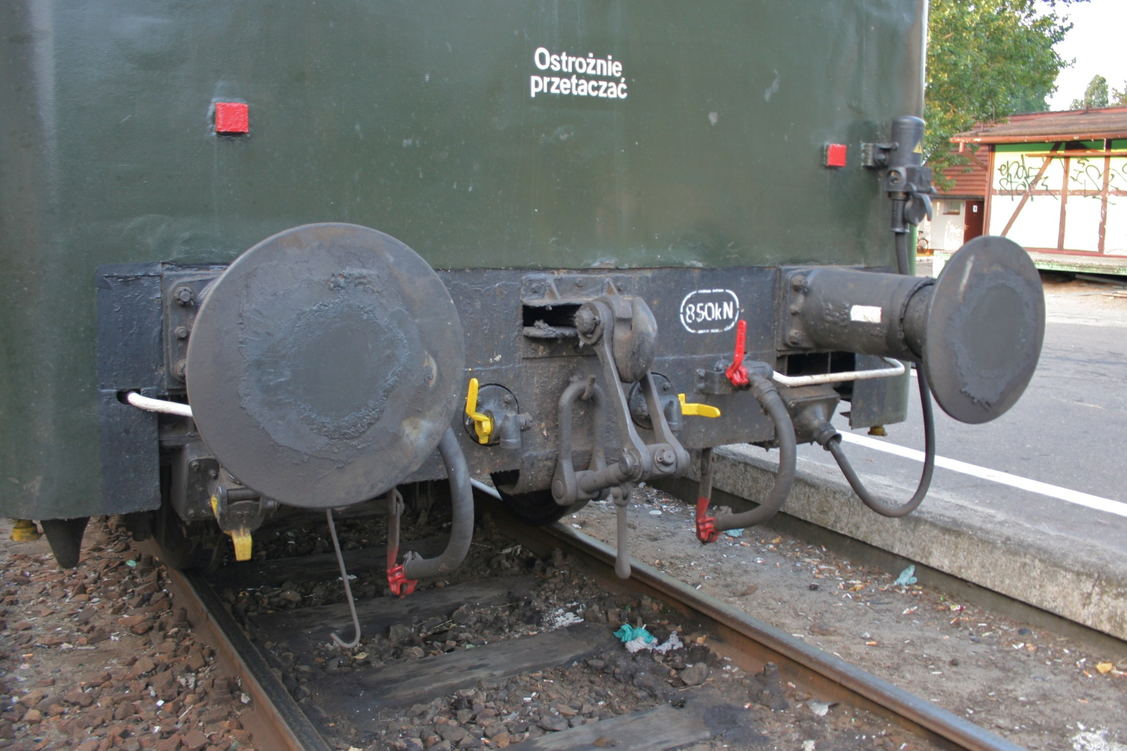 Bhp car detail.